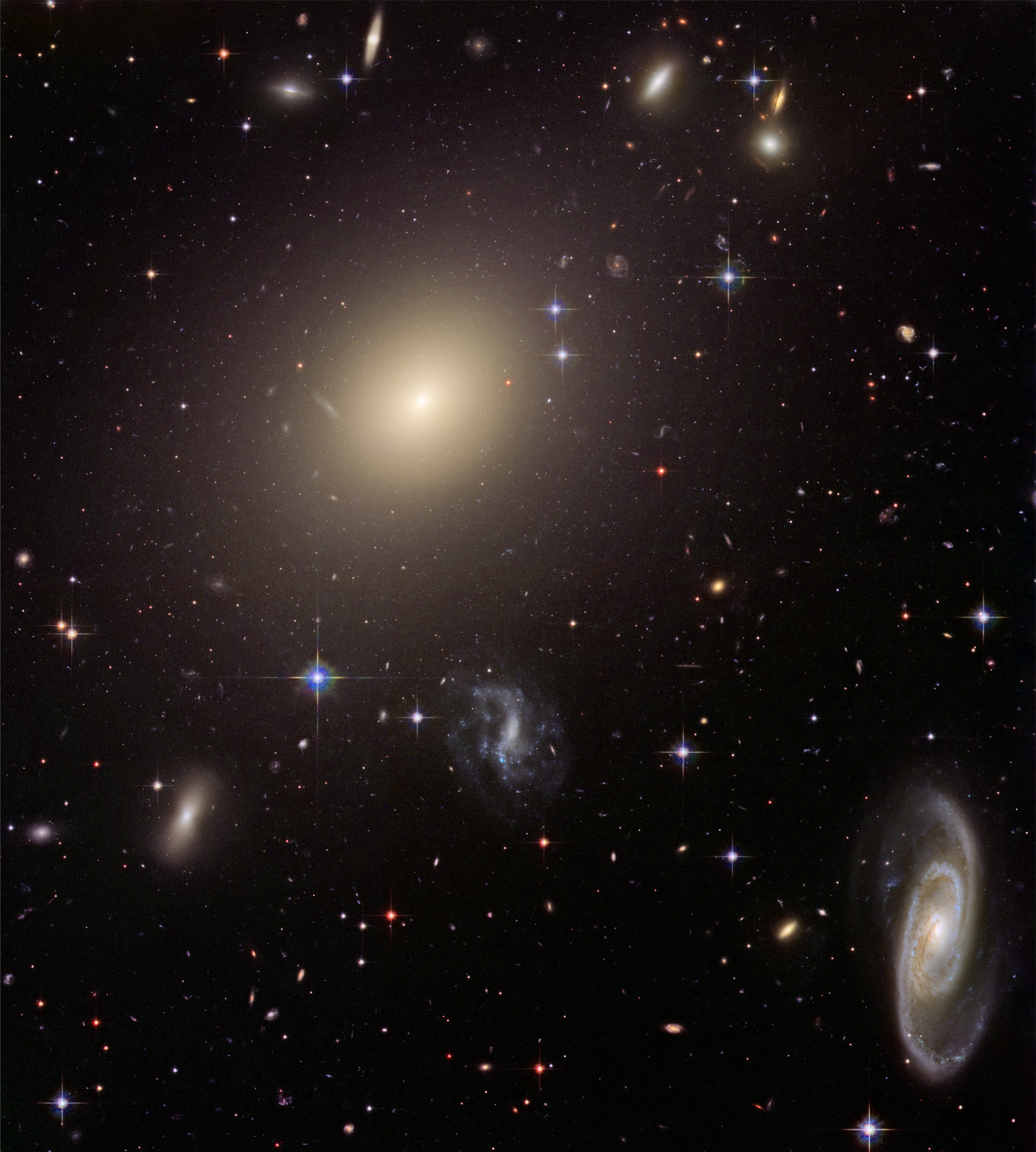 Hubble Illuminates Cluster of Diverse Galaxies (Abell S0740) - This image from NASA's Hubble Space Telescope shows the diverse collection of galaxies in the cluster Abell S0740 that is over 450 million light-years away in the direction of the constellation Centaurus. The giant elliptical ESO 325-G004 looms large at the cluster's center. The galaxy is as massive as 100 billion of our suns. Hubble resolves thousands of globular star clusters orbiting ESO 325-G004. Globular clusters are compact groups of hundreds of thousands of stars that are gravitationally bound together. At the galaxy's distance they appear as pinpoints of light contained within the diffuse halo. Other fuzzy elliptical galaxies dot the image. Some have evidence of a disk or ring structure that gives them a bow-tie shape. Several spiral galaxies are also present. The starlight in these galaxies is mainly contained in a disk and follows along spiral arms. This image was created by combining Hubble science observations taken in January 2005 with Hubble Heritage observations taken a year later to form a 3-color composite. The filters that isolate blue, red and infrared light were used with the Advanced Camera for Surveys aboard Hubble.